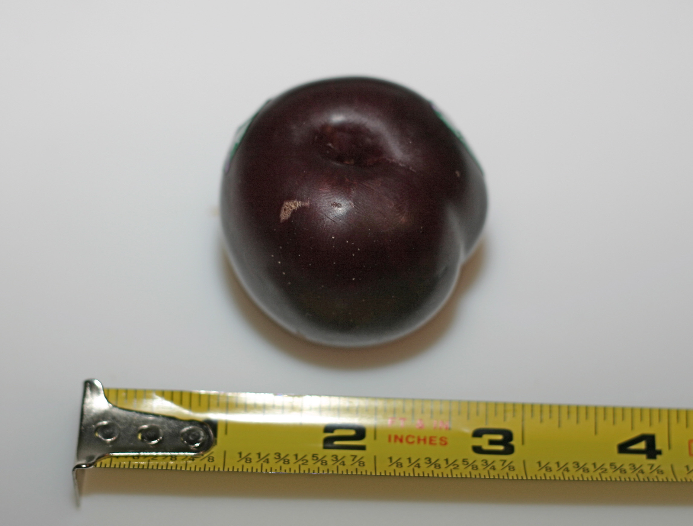 Photograph taken of a ripe Flavorosa pluot, approximately 2 in. (5 cm) in diameter.